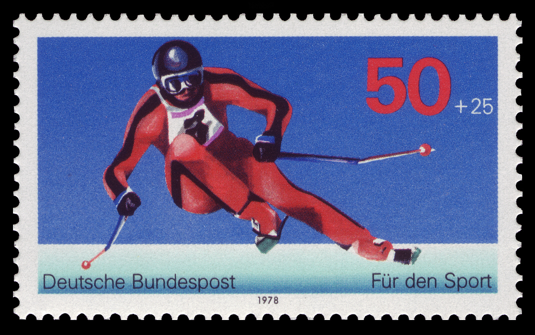 additional fees for German sports, Downhill Graphic designer: Lorenz Ausgabepreis: 50+25 Pfennig First Day of Issue / Erstausgabetag: 12. Januar 1978 Michel-Katalog-Nr: 958